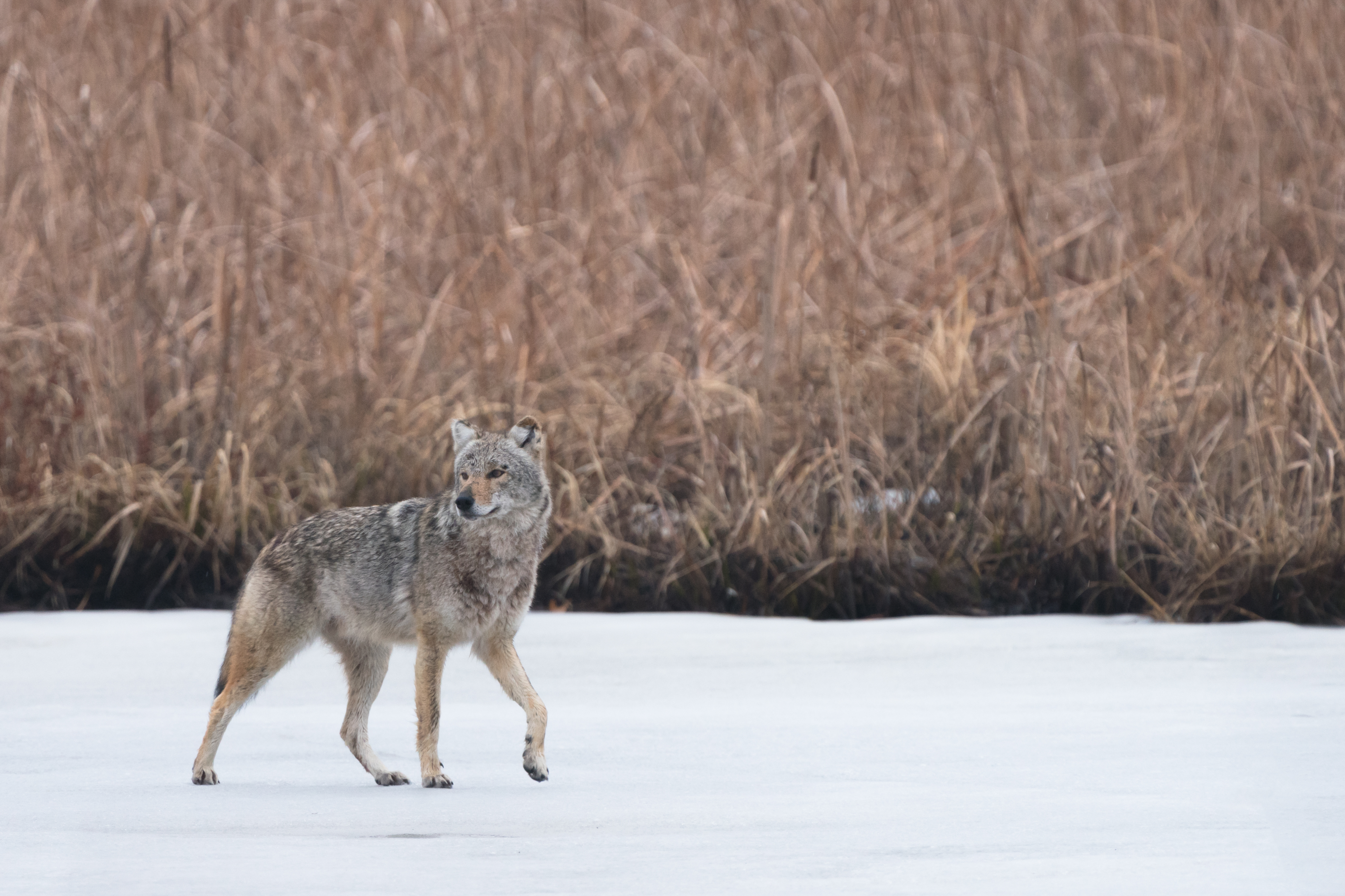 Coyote walking on iced-over pond at Sherburne National Wildlife Refugee, Minnesota